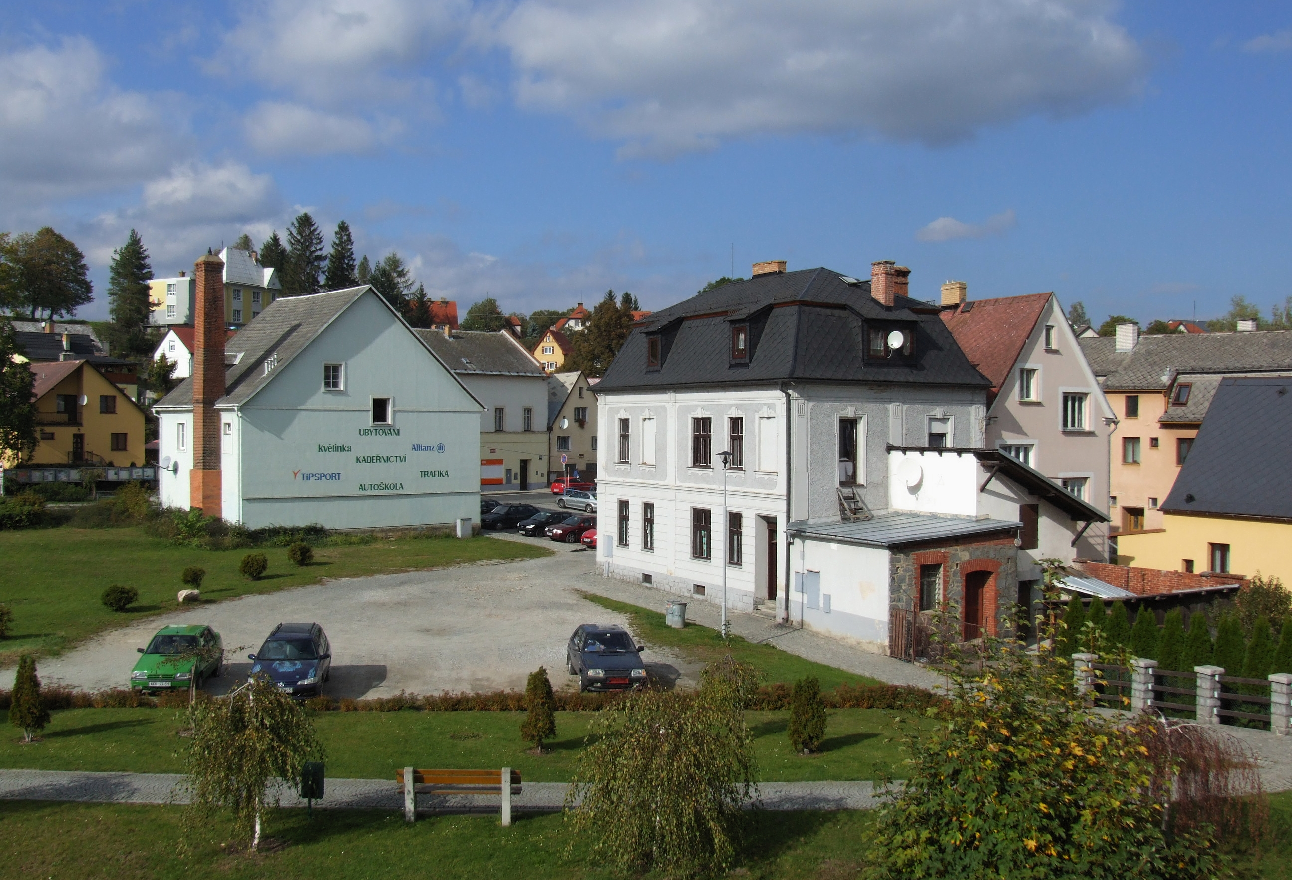 Žulová (Friedberg) - Czech Silesia